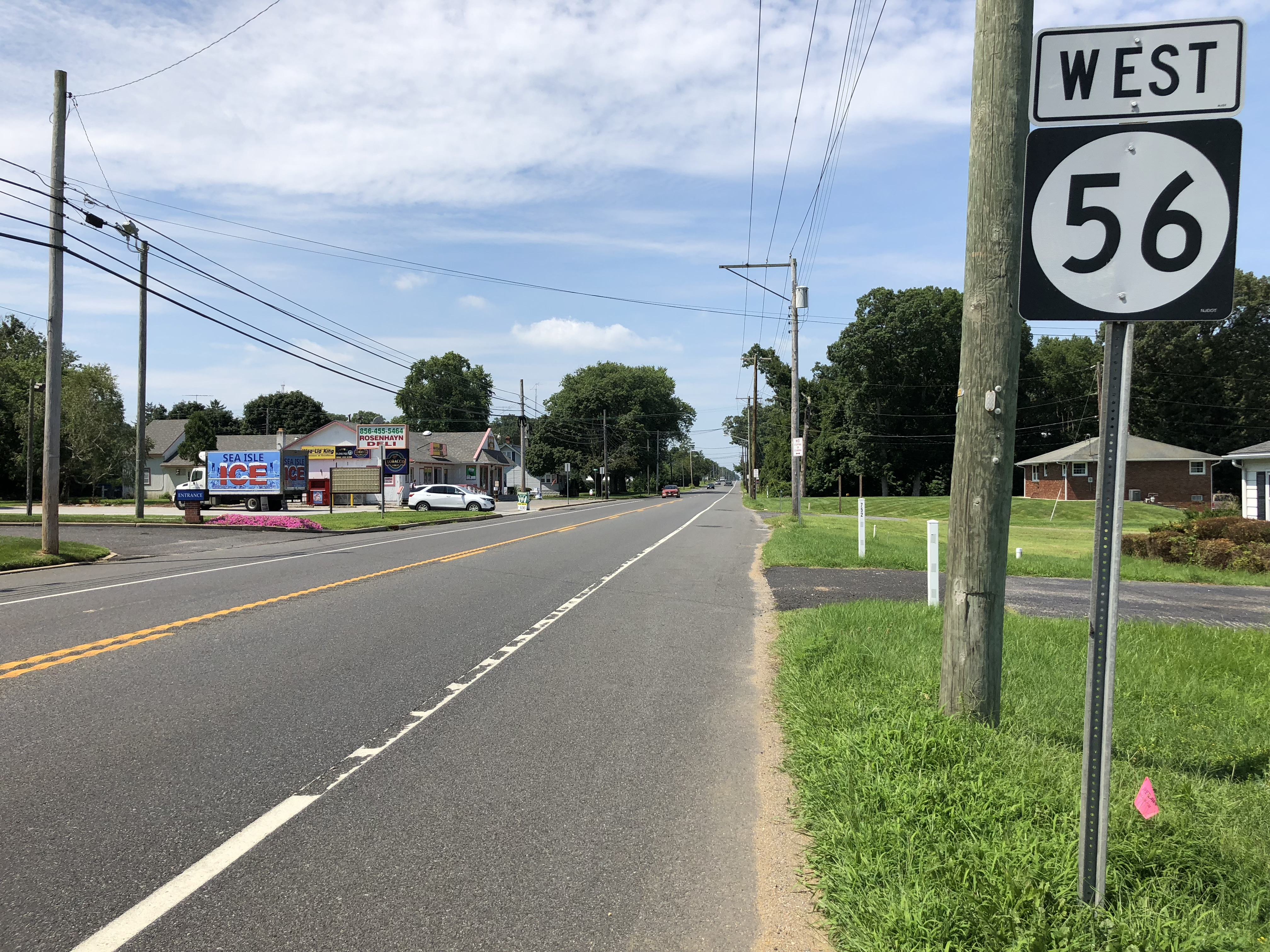 View west along New Jersey State Route 56 (Vineland-Bridgeton Pike/Landis Avenue) at Cumberland County Route 634 (Morton Avenue) in Deerfield Township, Cumberland County, New Jersey